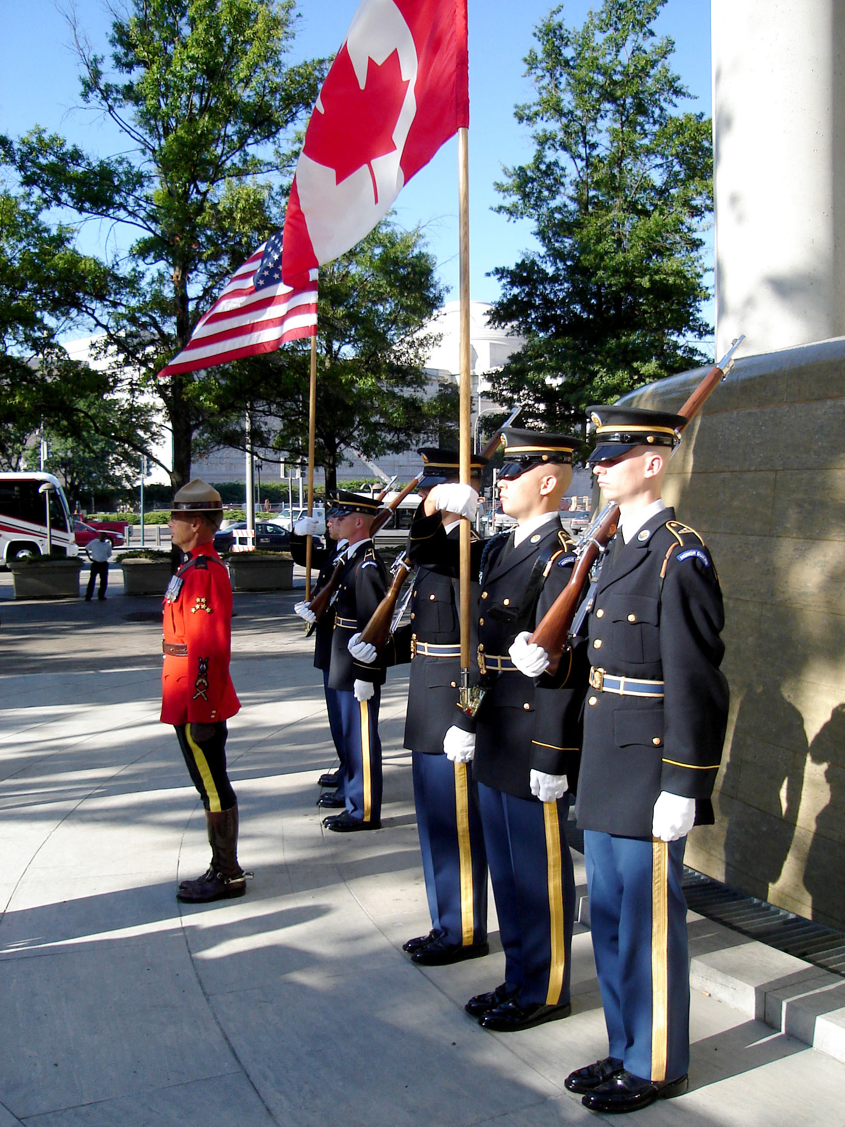 3rd U.S. Infantry Regiment holds the American and Canadian flags outside the Canadian Embassy. RCMP Corporal Bill Finlay leads the regiment.